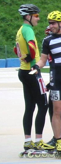 Alexander Baumgärtel at the start on an inline-speedskating 10000 meter elimination race.